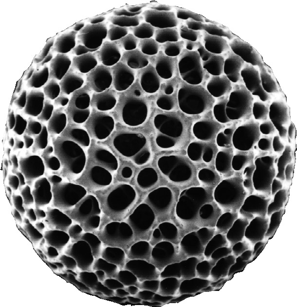 Palaeoclimate archives: REM foto of a Radiolaria